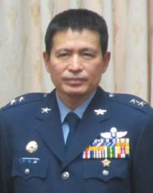 Air Force (ROCAF) Lieutenant General Li Ting-sheng, Deputy Chief of Staff for Communications, Electronics and Information, General Staff.